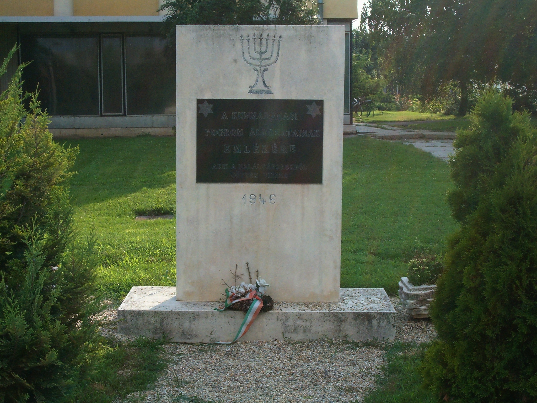 Monument in Kunmadaras to the heroes of the 1946 pogrom